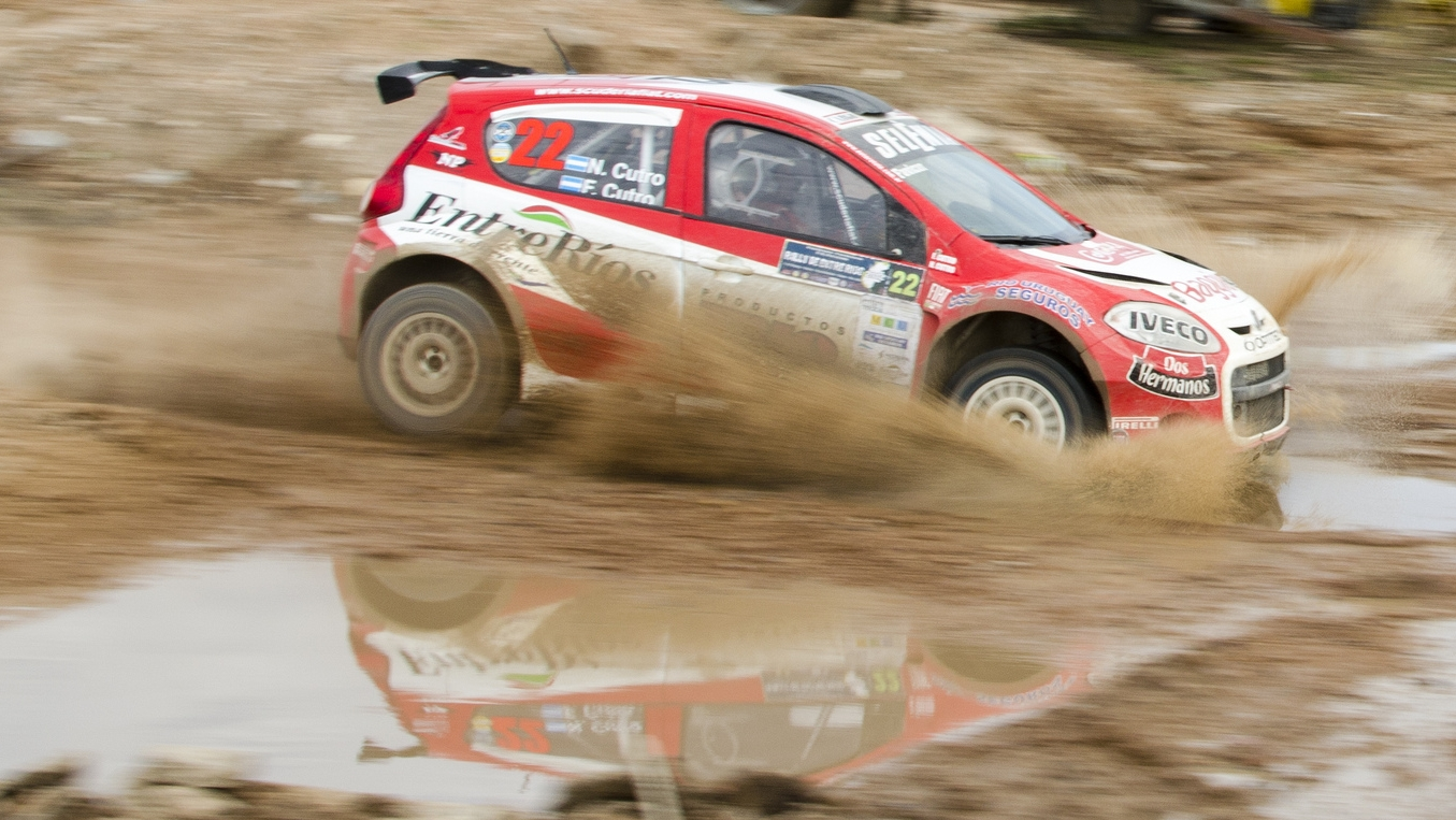 Las hermanas Nadia y Florencia cutro durante el Rally de Entre Ríos 2012, en Argentina. (Trabajo derivado. Ver más detalles abajo)